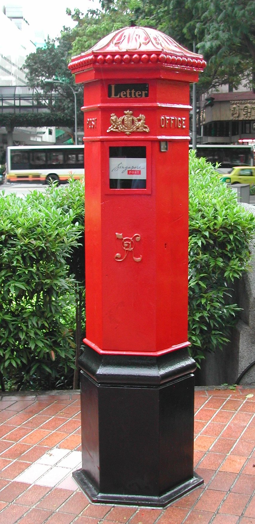 Replica Penfold in use in Singapore for collection of Christmas Mail. Take 12th December 2005 by Kitmaster 23:12, 21 March 2007 (UTC) on coolpix 885